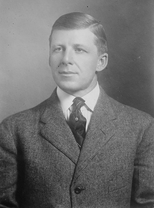 Charles F. Carpenter, Bain News Service, publisher, [between ca. 1910 and ca. 1915] 1 negative : glass ; 5 x 7 in. or smaller. Notes: Title from unverified data provided by the Bain News Service on the negatives or caption cards. Forms part of: George Grantham Bain Collection (Library of Congress). Format: Glass negatives. Repository: Library of Congress, Prints and Photographs Division, Washington, D.C. 20540 USA, General information about the Bain Collection is available at Persistent URL: Call Number: LC-B2- 2971-5